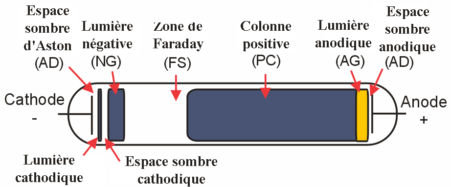 French version. An electric glow discharge tube (Crookes tube) showing the different glowing regions in the gas that appear when a high DC voltage is applied between the electrodes: *An anode and cathode at each end *Aston dark space *Cathode glow *Cathode dark space (also called Crookes dark space, or Hittorf dark space) *Negative glow (Cathode glow) *Faraday space *Positive column *Anode glow *Anode dark space (Positive glow)